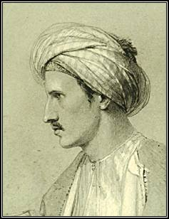 Edward William Lane, English Orientalist, from the private collection of Catherine Lane Poole Dupré